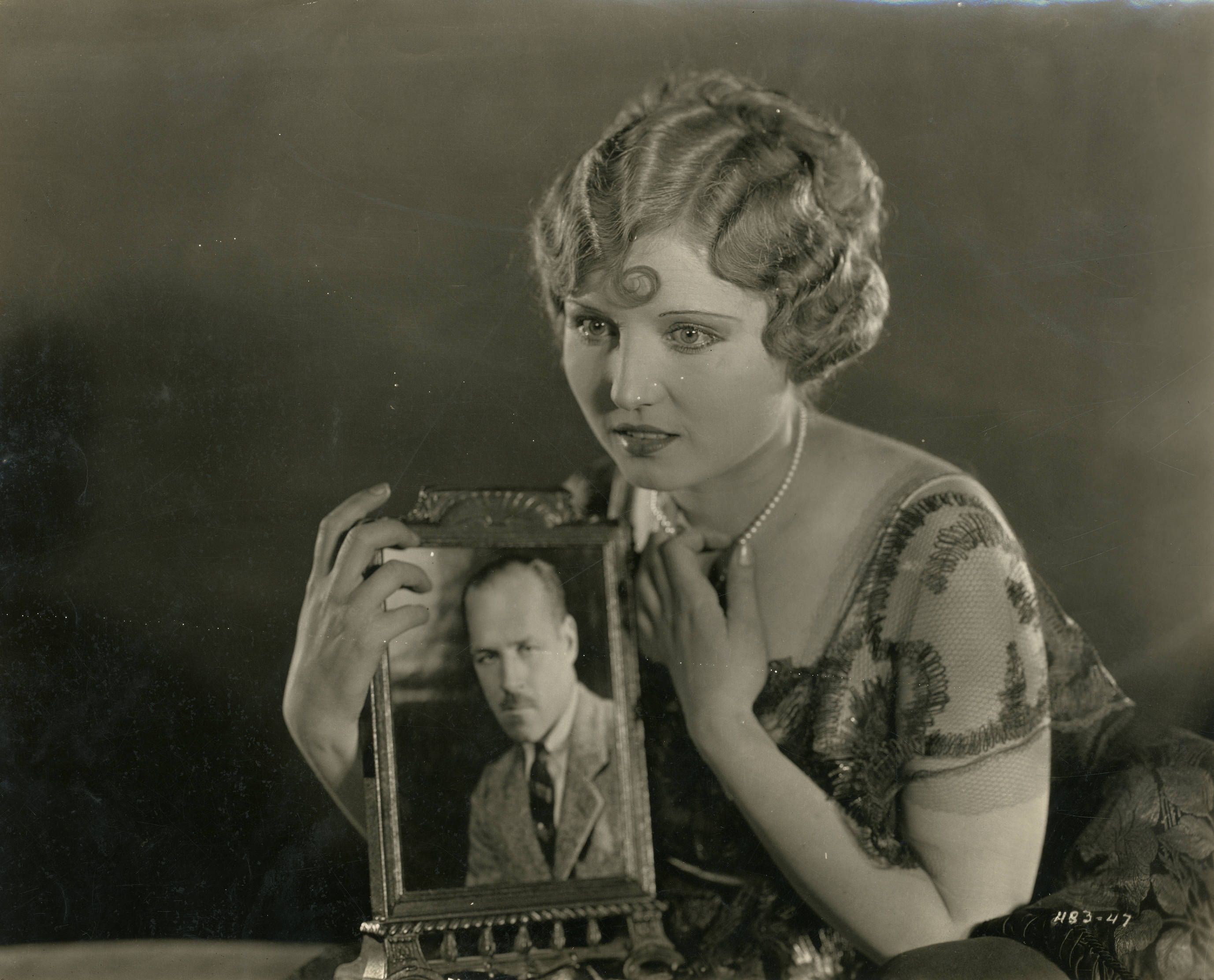 Eva Novak, silent film actor, in the American drama film Making a Man (1922). Subjects: actresses